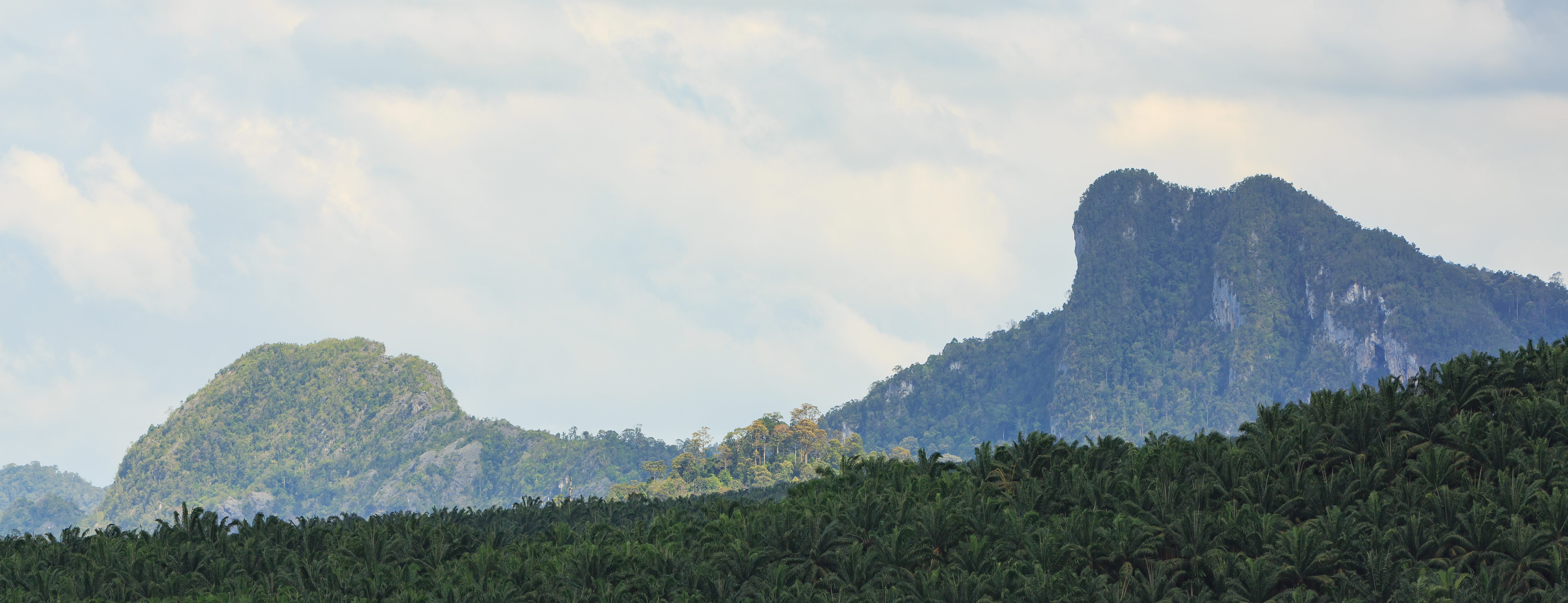 District Kunak, Sabah: The forest reservation of Gunung Madai / Mount Madai rises over the oilpalm plantations of Kunak district